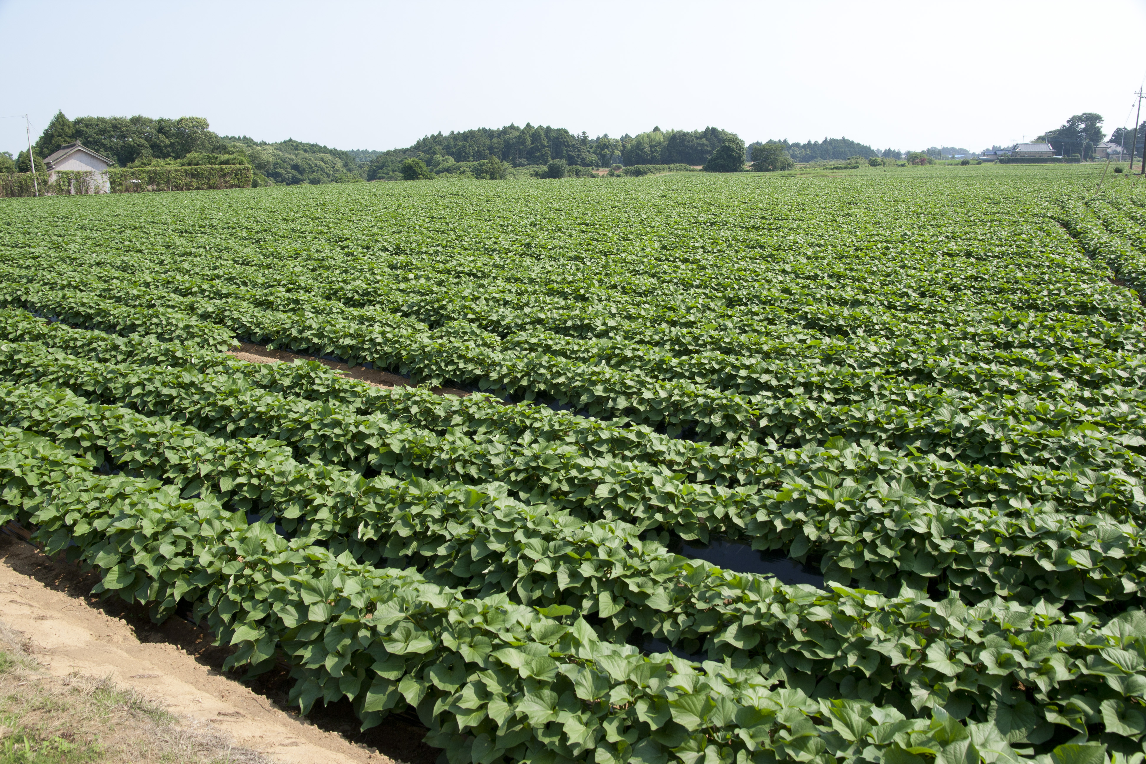 Sweet potato field in Namegata City, Ibaraki Pref., Japan